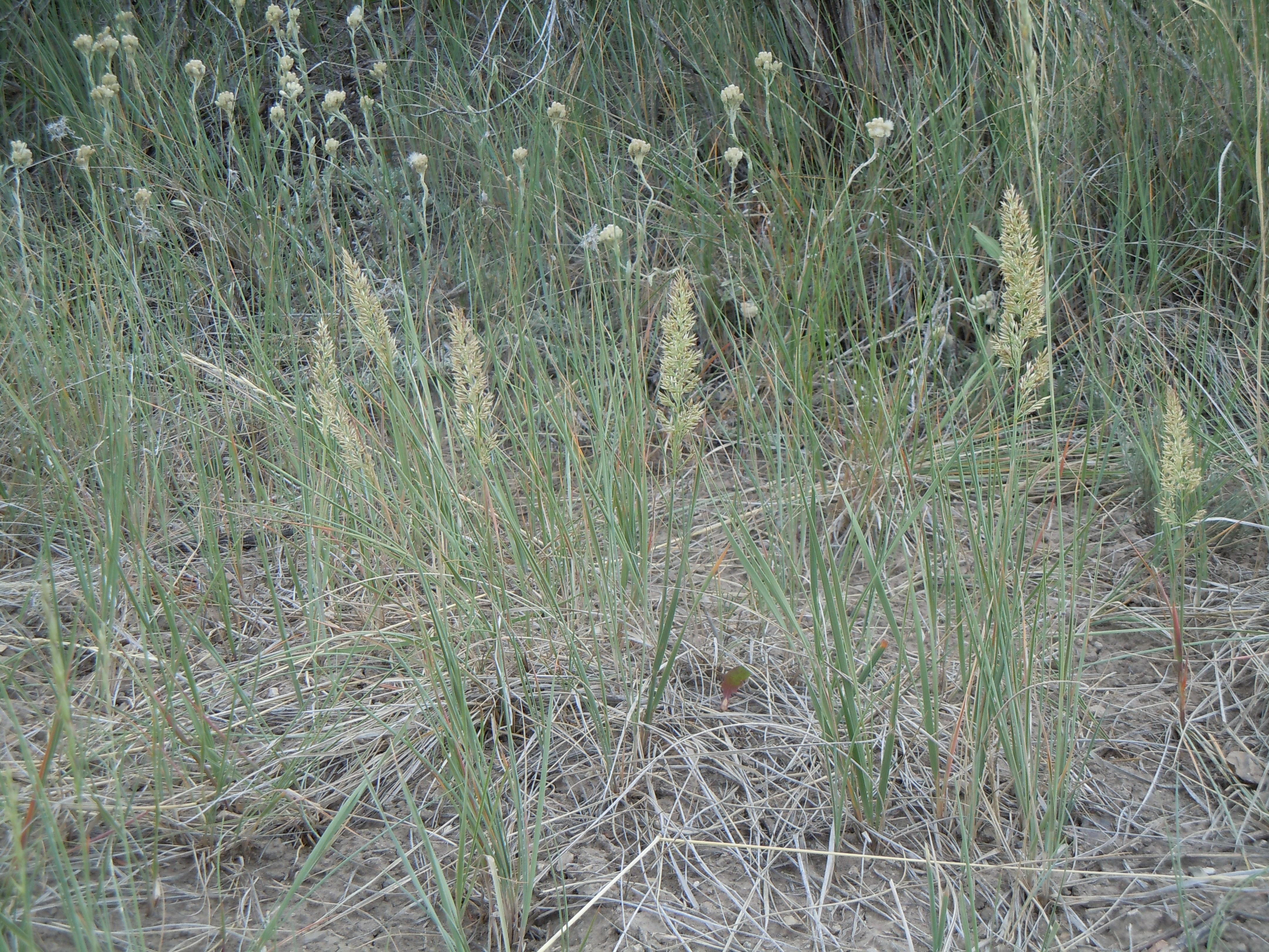 Calamagrostis montanensis is more common roadside than in sagebrush steppe with high native plant cover, which is indicative of its preference for a more disturbance-prone or moister setting (this grass is common along the Muddy Creek road).